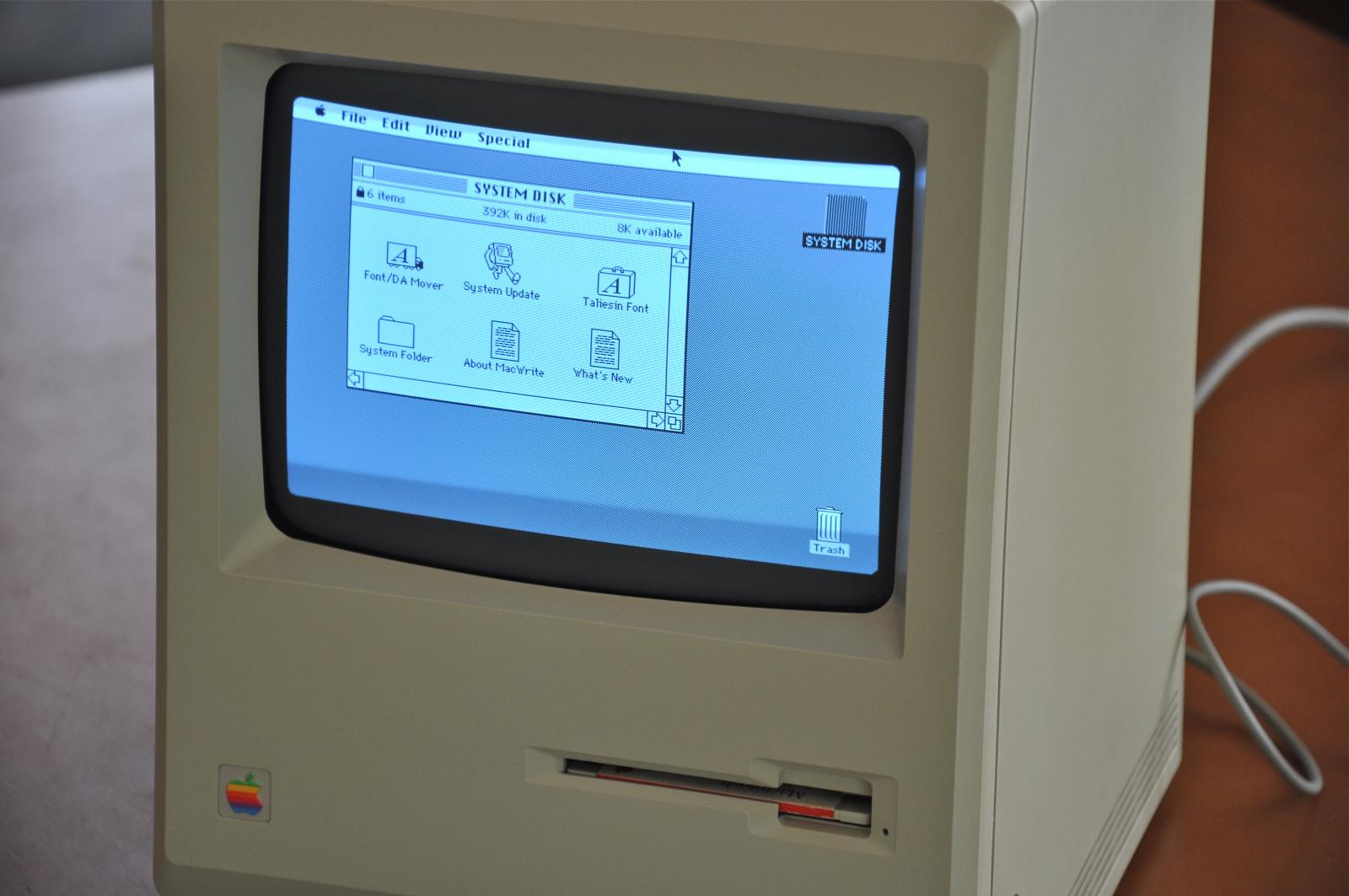 Enlarged view of the desktop of an Apple Macintosh 512K